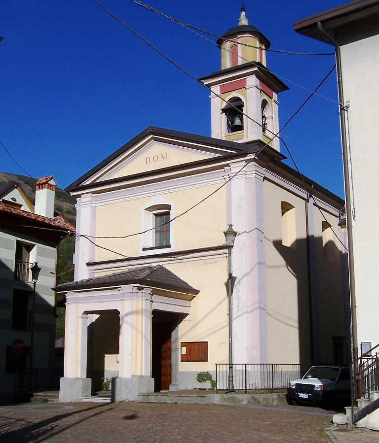 Galleno, Val Camonica